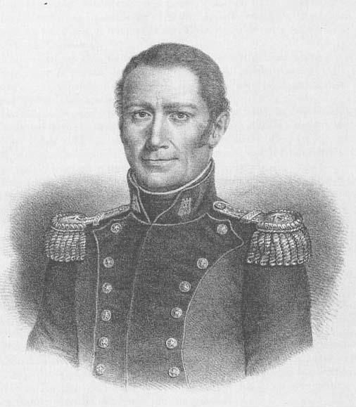 Image of Colonel Engineer of Chilean Army Juan Mackenna